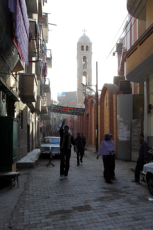 South side of the Church of the Holy Virgin, view to the west, Sohag, Egypt